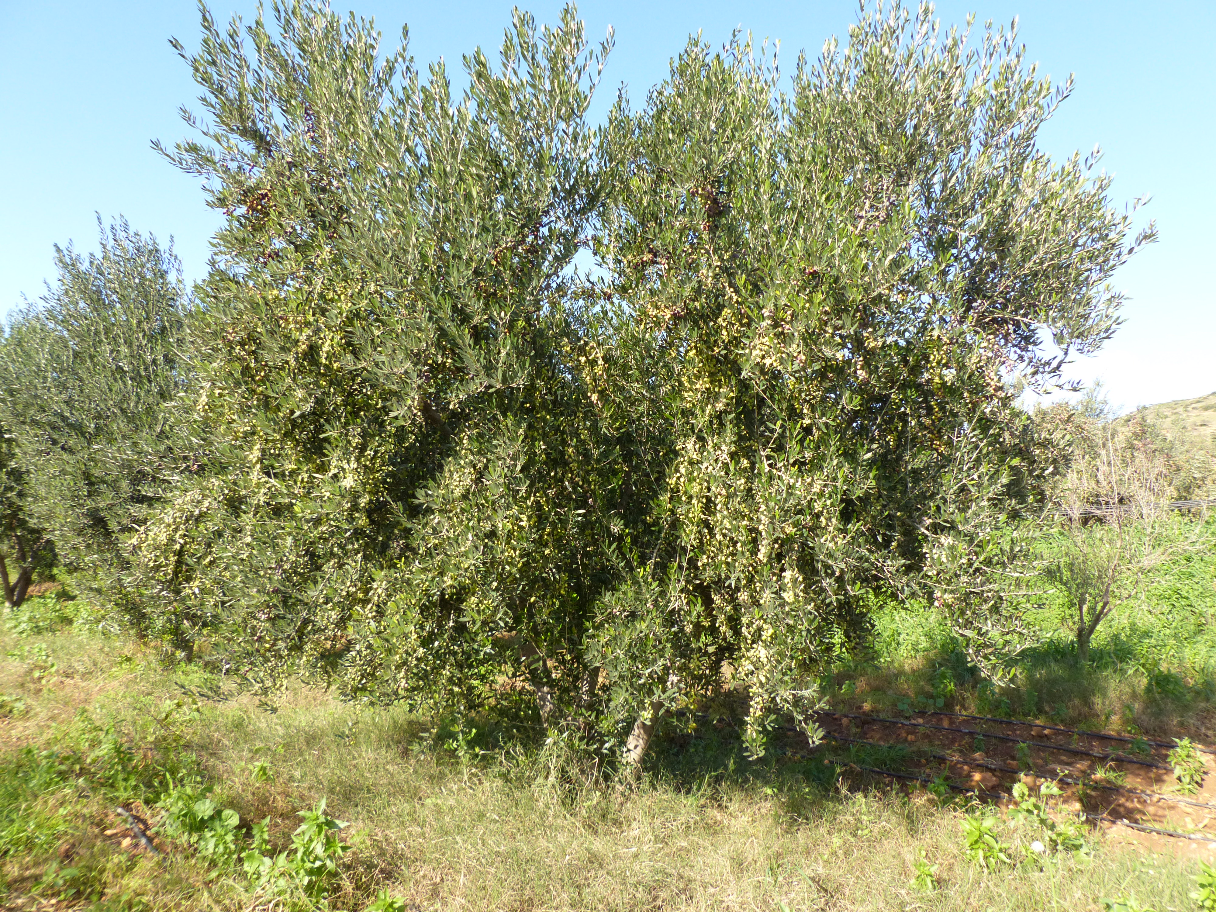 Koroneiki Olives in Ghar El Melh, North-east of Tunisia